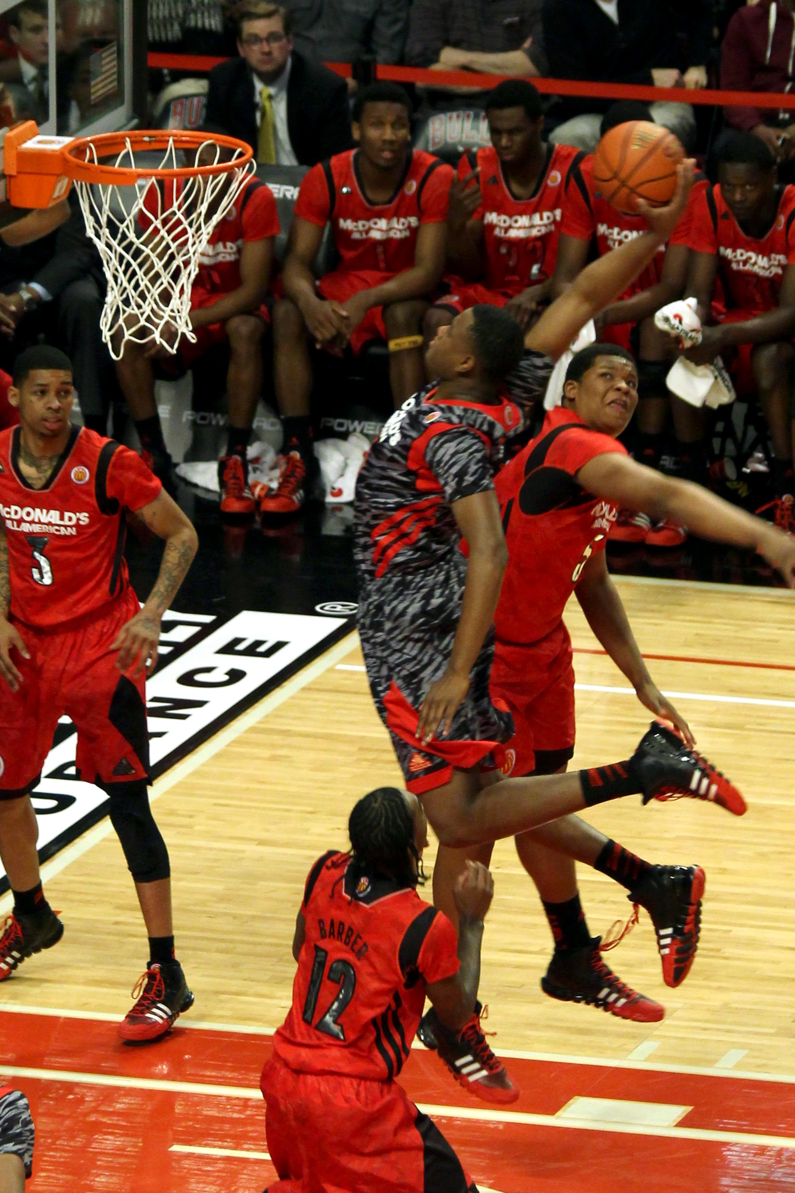 Jarell Martin tomahawk dunk against Kennedy Meeks as Keith Frazier (#3) looks on in the w:2013 McDonald's All-American Boys Game